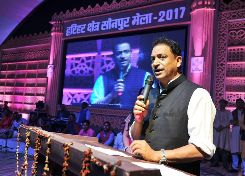 Rudypratapharihar